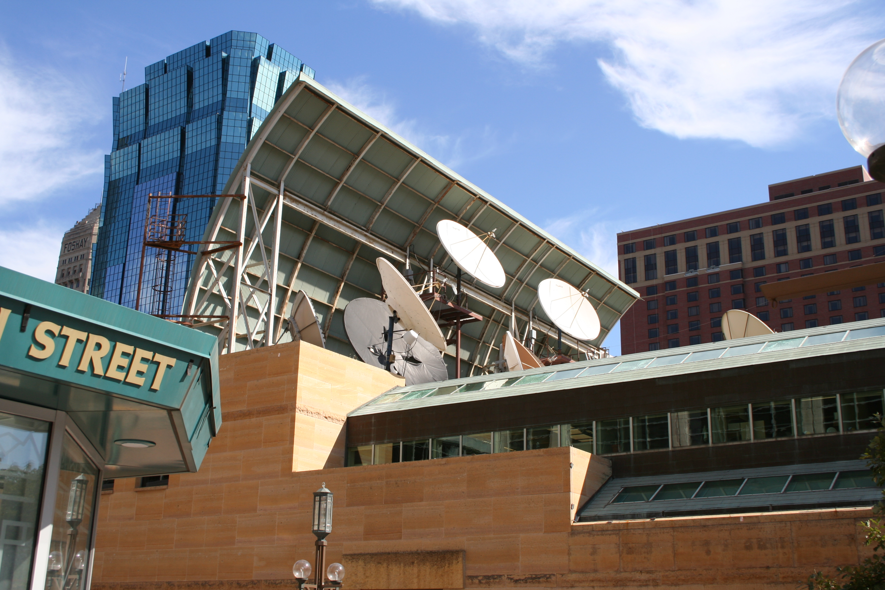 WCCO-TV, Minneapolis, Minnesotatransmitters